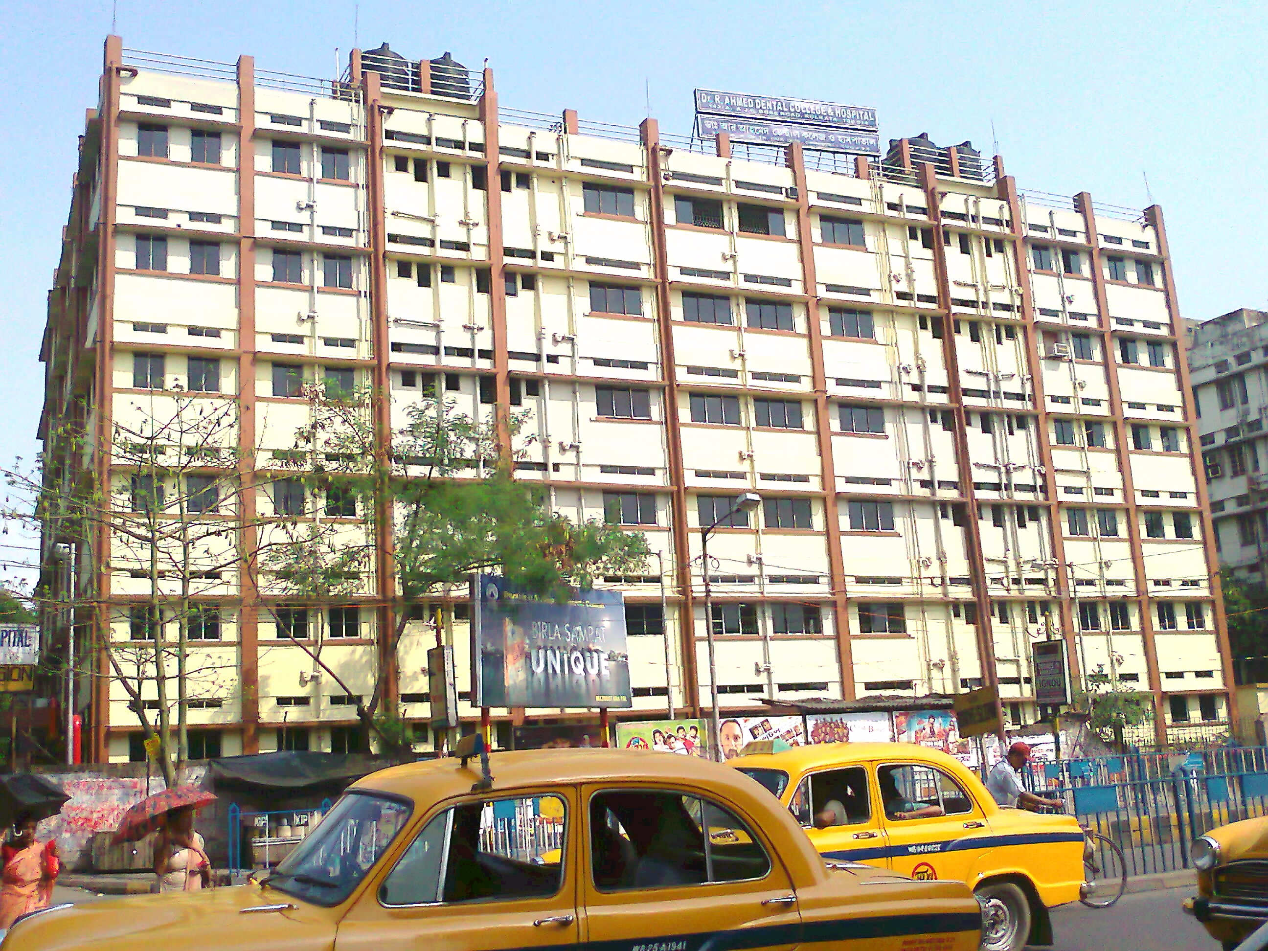 New building